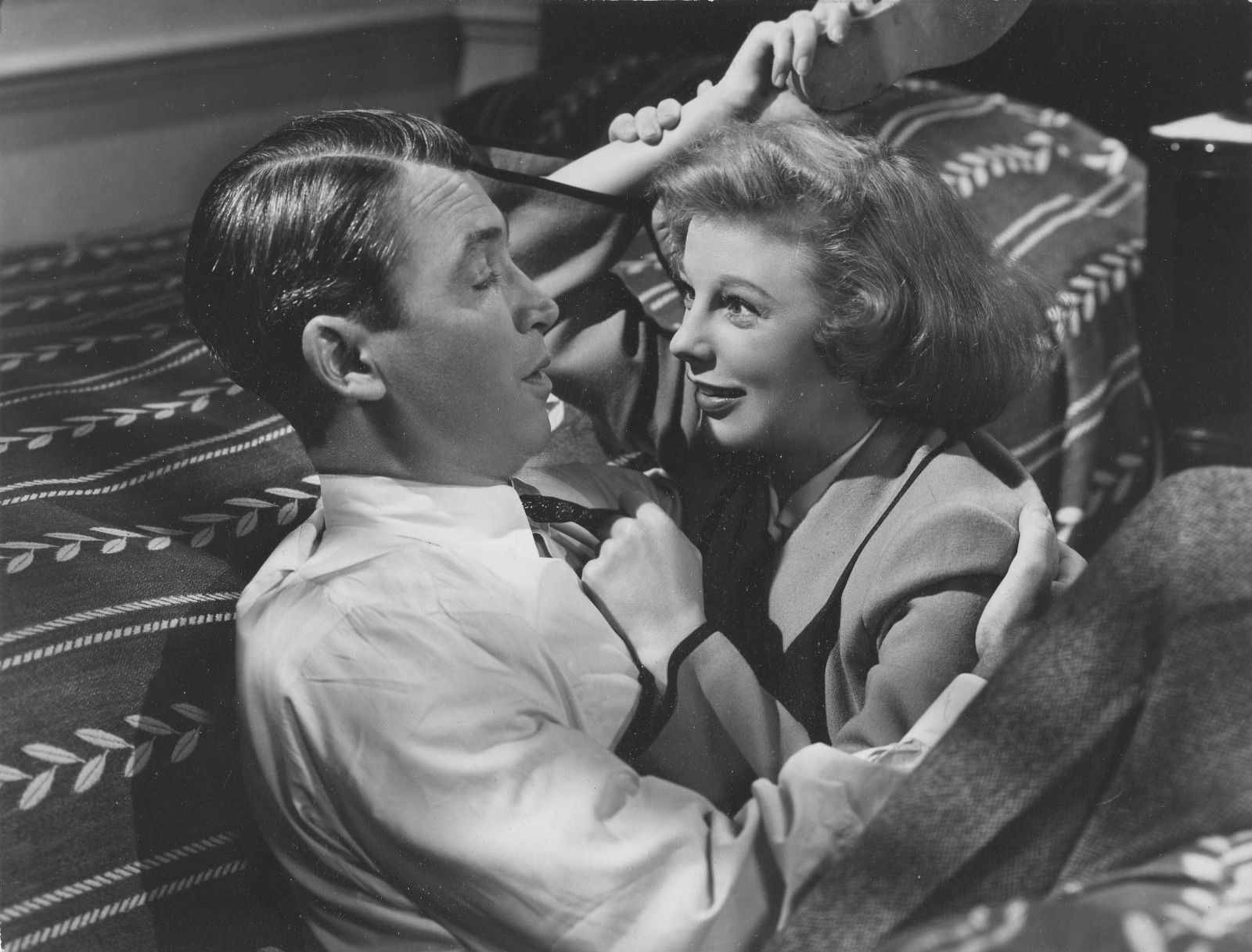 James Stewart and June Allyson in the American film The Stratton Story (1949).